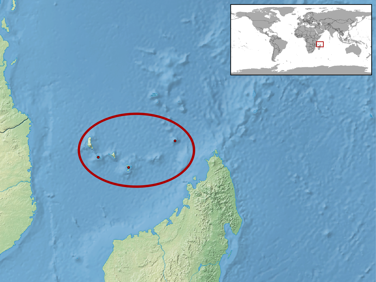 geographic distribution of Cryptoblepharus gloriosus